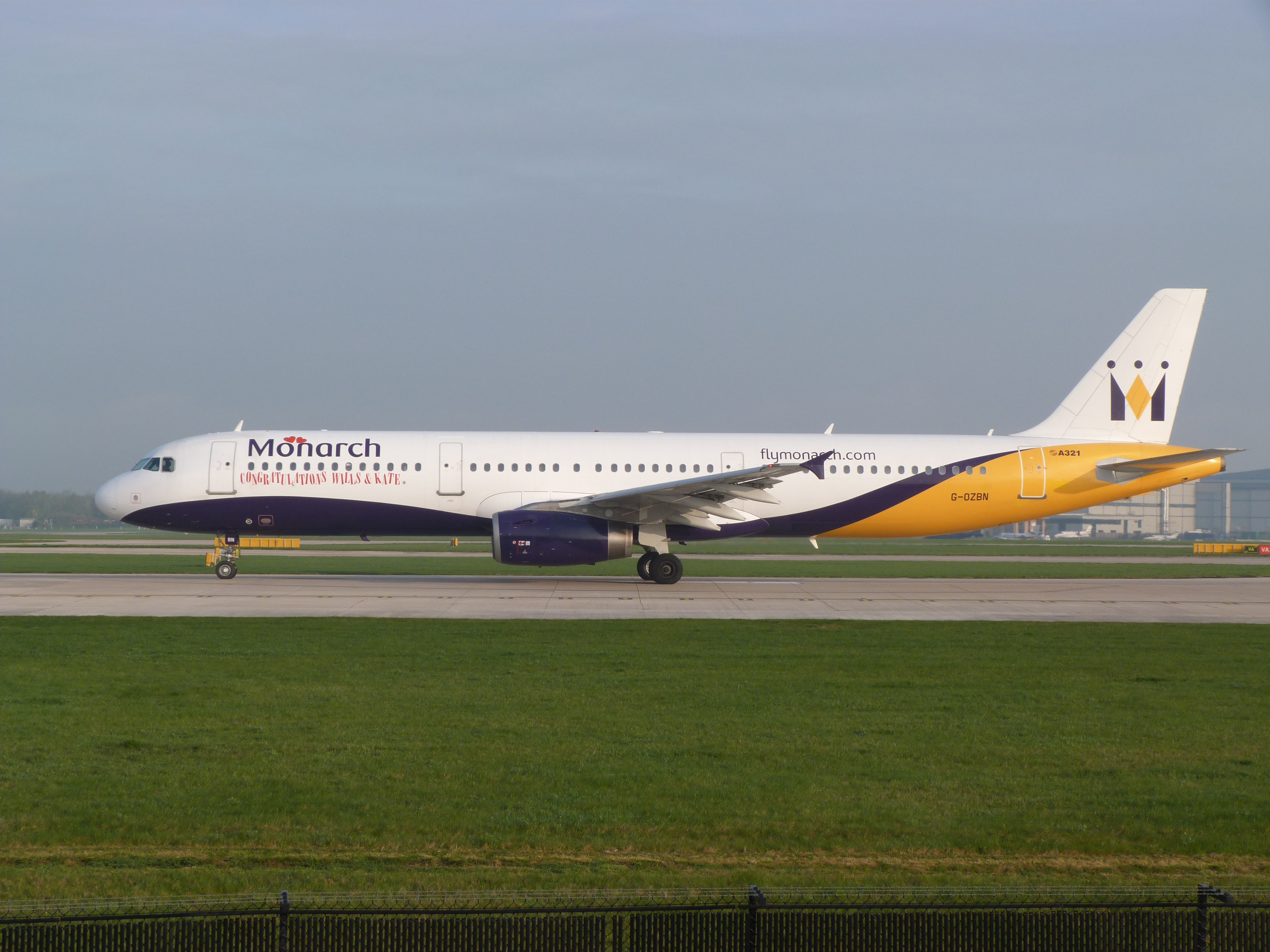 Man 16/4/11 G-OZBN A.321 Monarch "Wills & Kate logo"